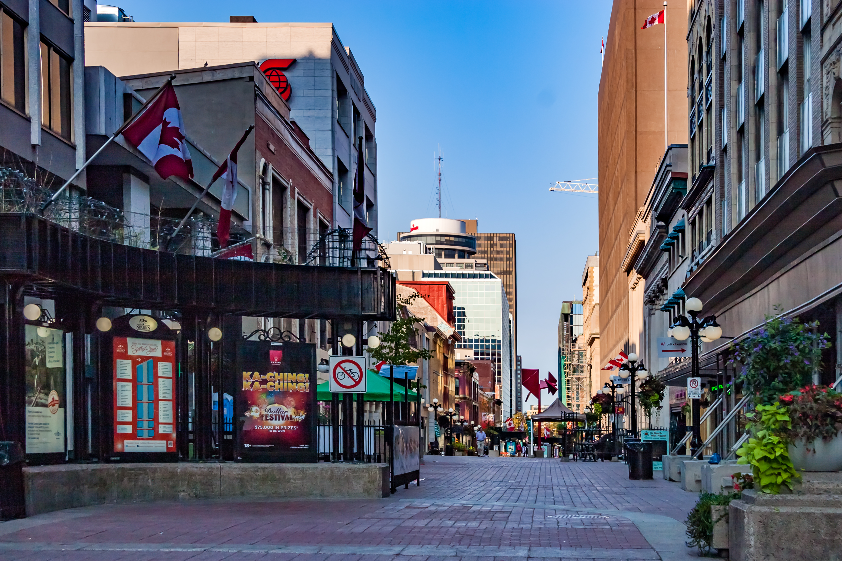 Sparks Street (French: Rue Sparks street in Uptown Ottawa, Ontario that was converted into an outdoor pedestrian street in 1967, making it the earliest such street or mall in Canada.[1]